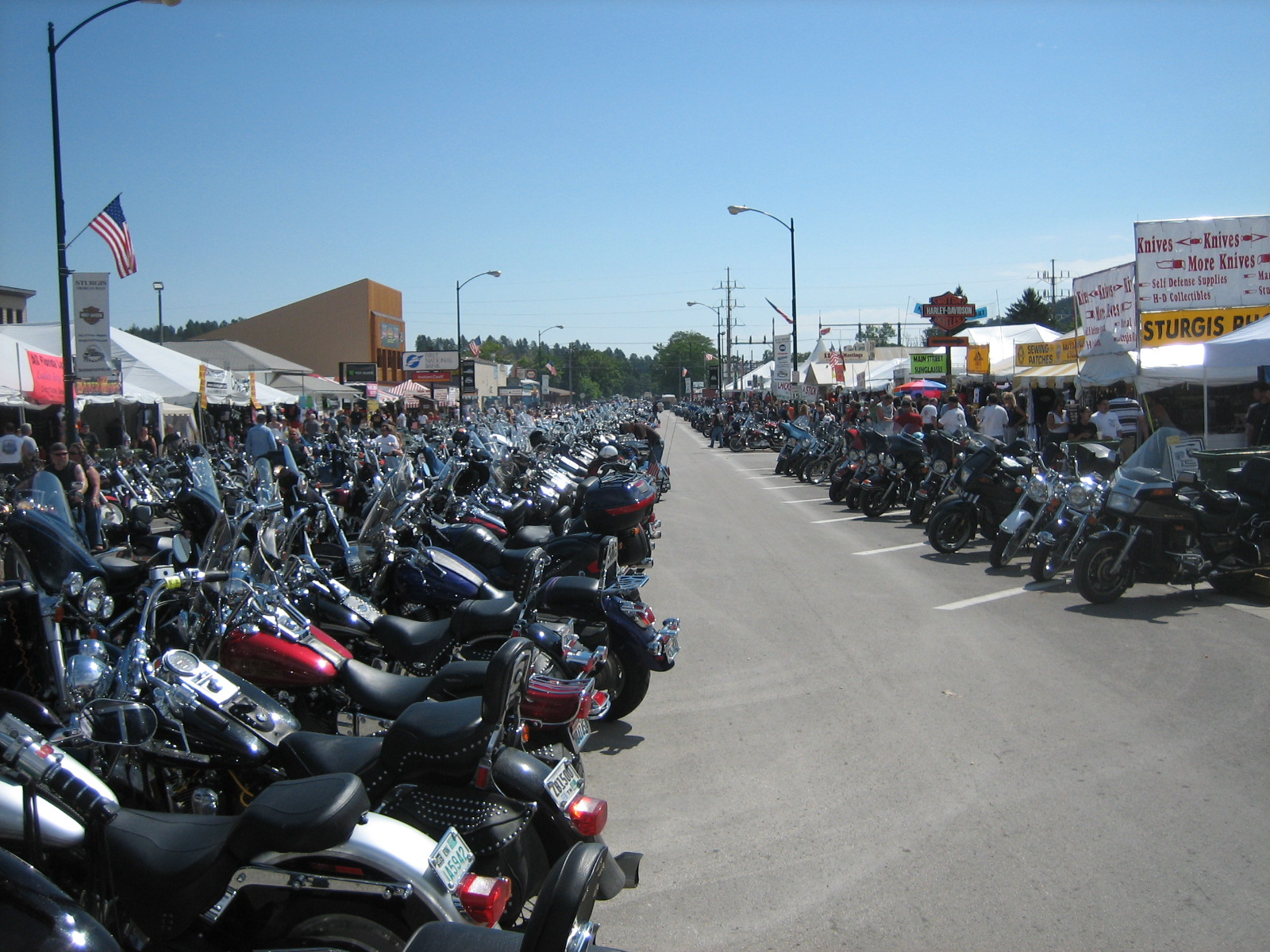 Bikes lined up on Main Street during Bike Week, Sturgis, South Dakota